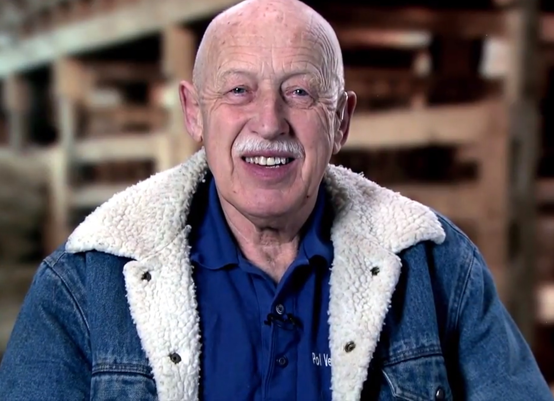 Nat Geo Wilds' Incredible Dr Pol Dutch-American veterinarian and reality show star Jan Pol, interviewed on the Valder Beebe Show